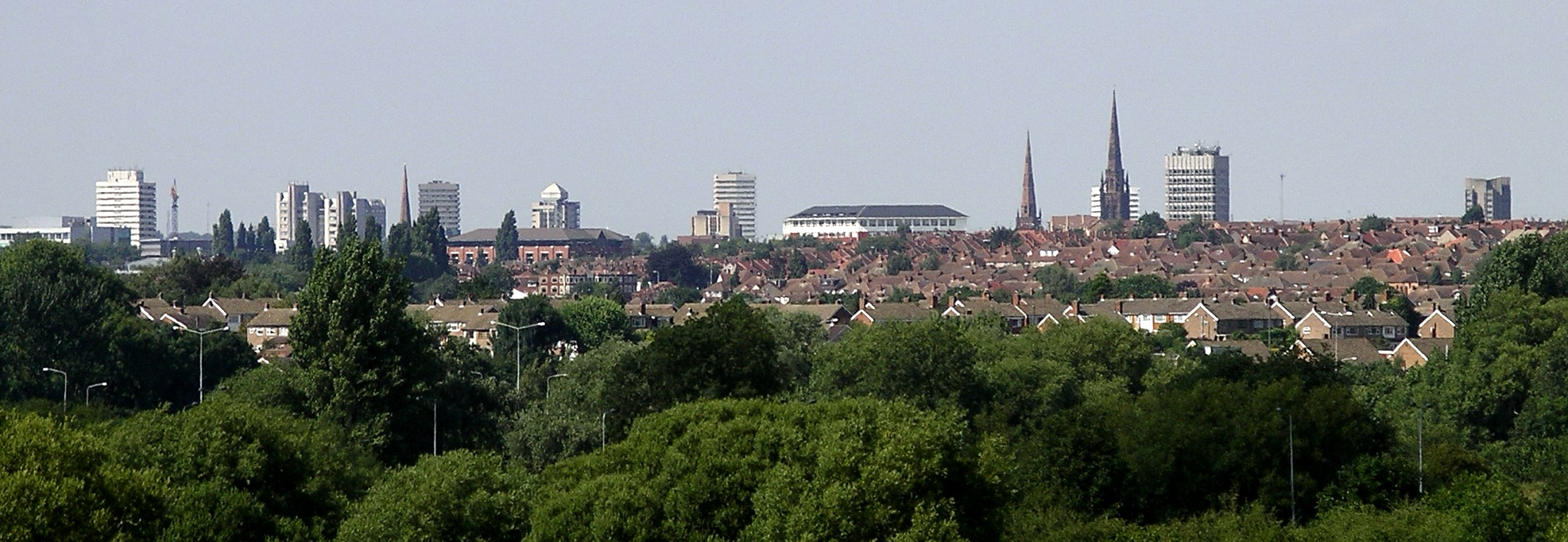 Skyline of Coventry, England as seen from Baginton, Warwickshire.